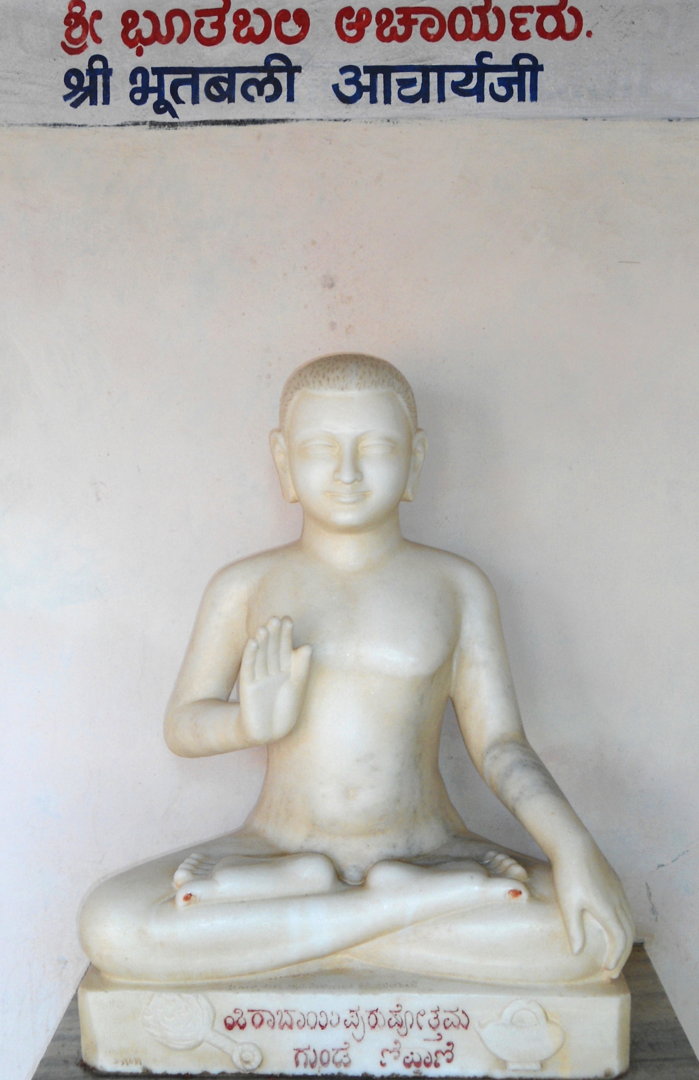 Image of Acharya Bhūtbalī